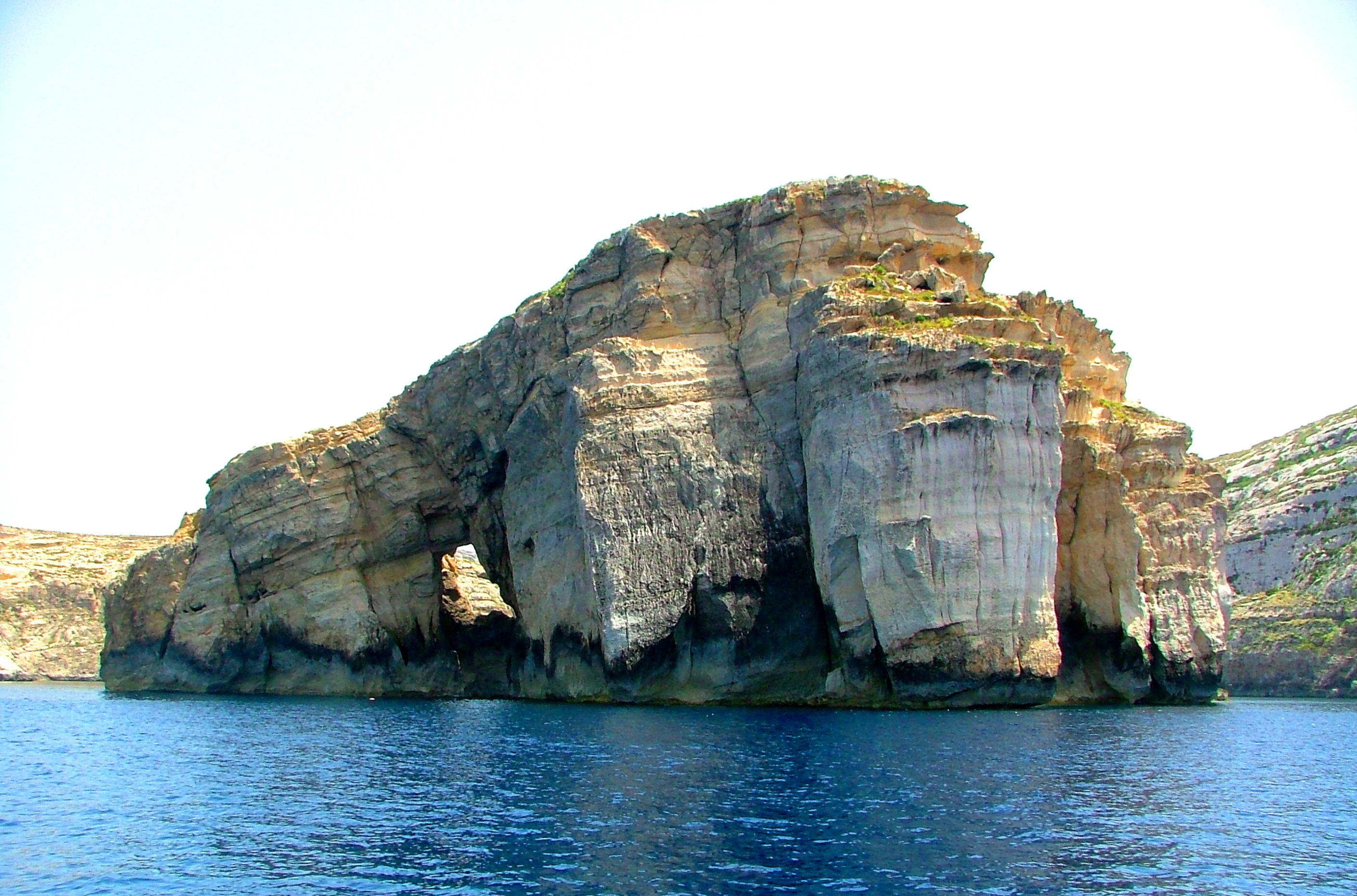 Fungus Rock rear view, photo: Arnold Sciberras